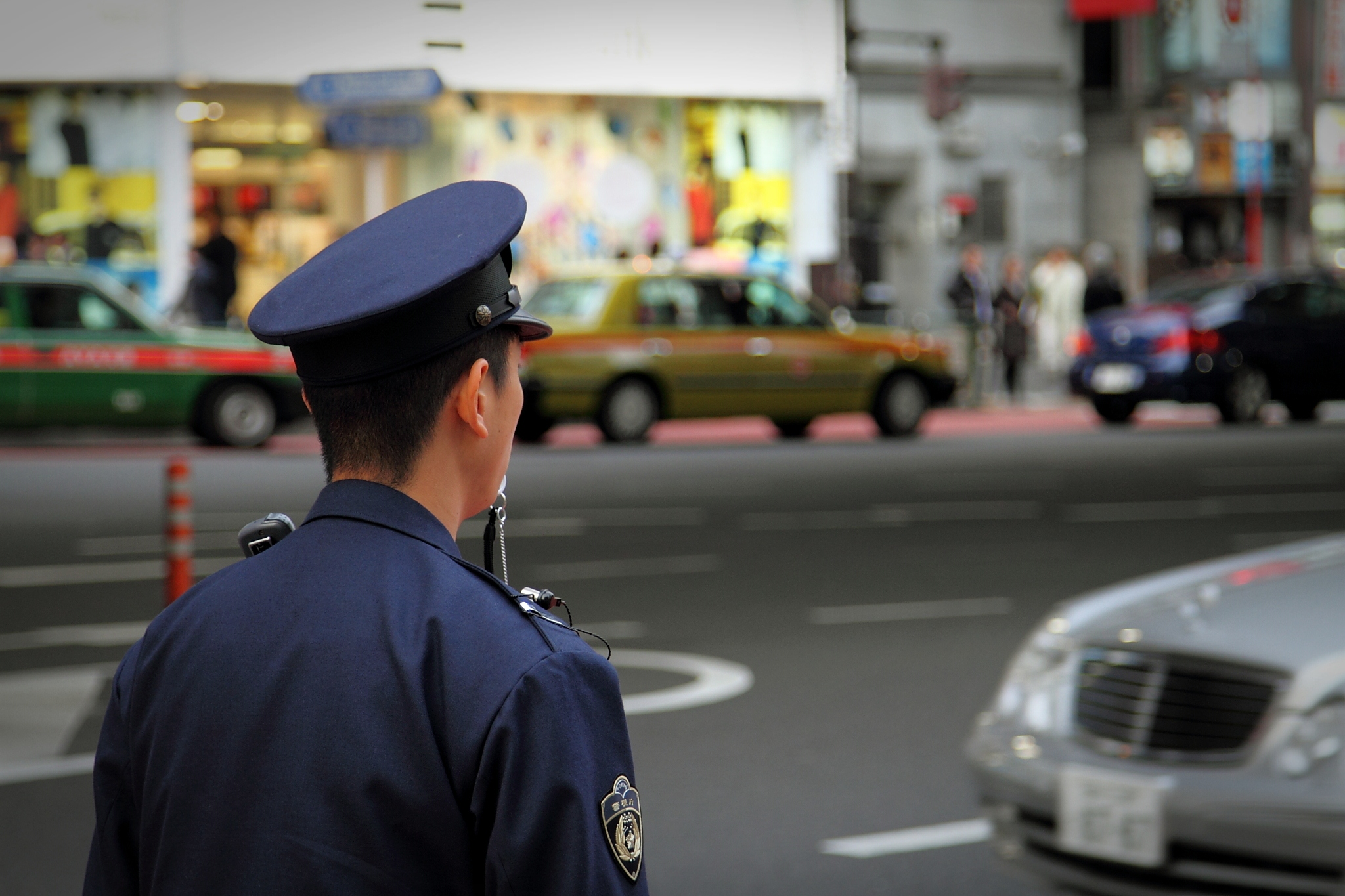 Or.. is it? Can't remember :yes, he is police officer of japan--Hohoho (talk) 11:19, 4 June 2011 (UTC)